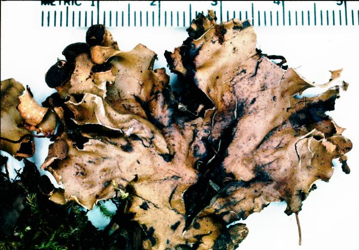 Peltigera canina (L.) Willd., 1787 (photograph of a herbarium specimen) Growing in moss at tree base in Thuja swamp near Iron Bridge at Carp Creek, off Hogsback Road, 0.4 mile E of W. Burt Lake Road, Cheboygan County, Michigan, USA; collected and identified by Richard E. Riefner (No. 81-361, 29 Jun 1981); specimen is now in the Lichen Herbarium of the New York Botanical Garden. (millimeter scale)